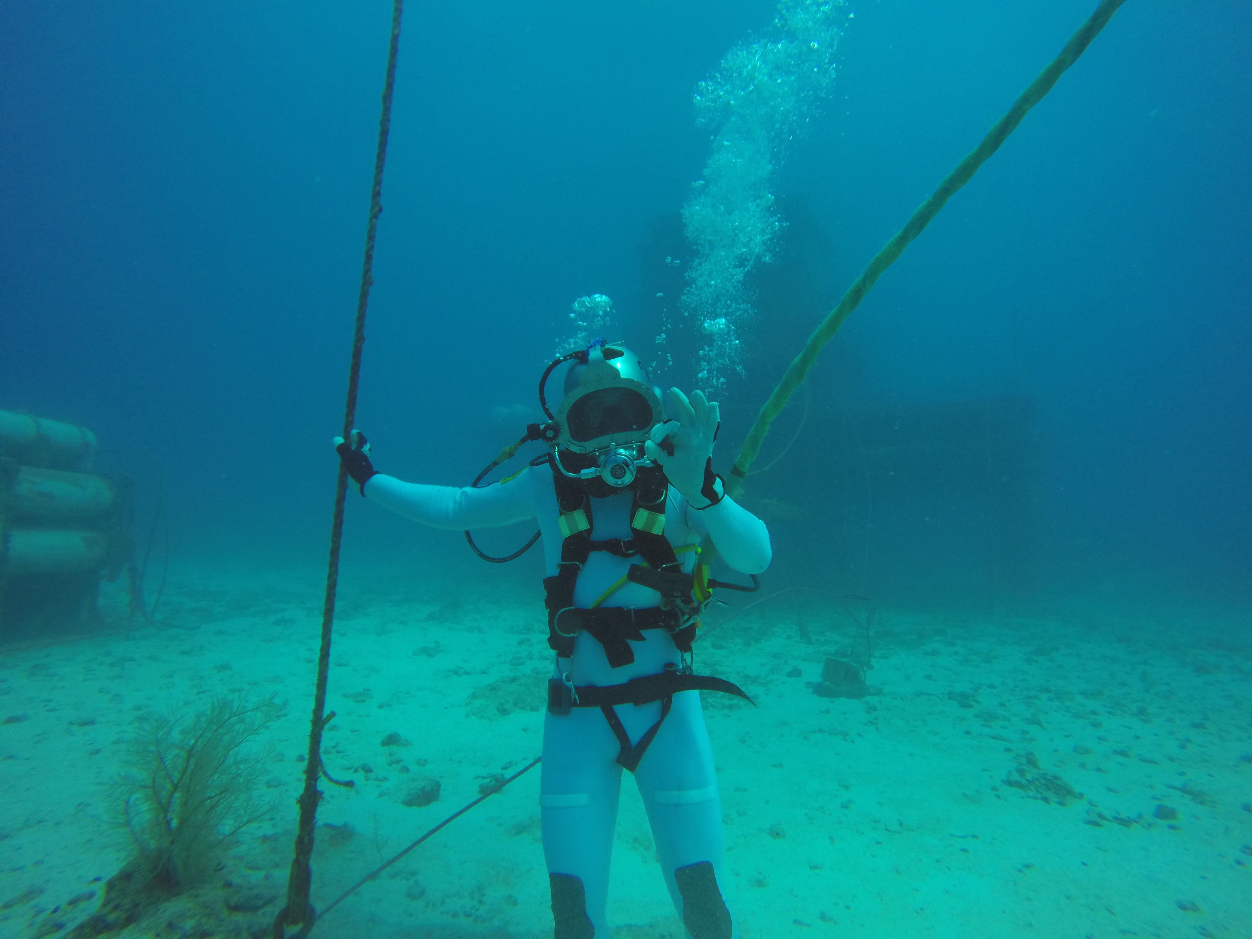 European Space Agency astronaut Thomas Pesquet wraps up rehearsals and training in his dive helmet off the coast of Key Largo. Pesquet, like two of his NEEMO 18 crewmates, selected as an astronaut candidate in May 2009 and having successfully completed his basic training in November 2010, will be joined by the two NASA classmates and veteran astronaut Aki Hoshide (NEEMO 18 commander) of the Japan Aerospace Exploration Agency (JAXA) beginning July 21. Pesquet will be an aquanaut-turned-astronaut on a future International Space Station crew, and this underwater mission will help better prepare him for that role.